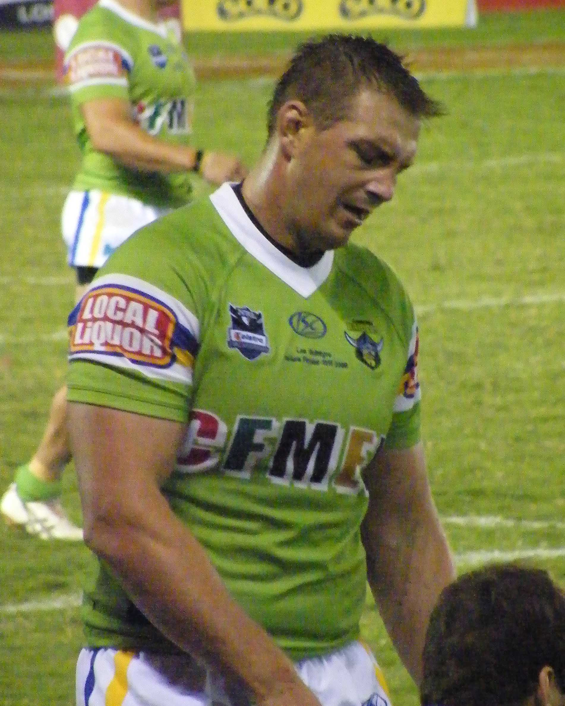 Scott Logan of Canberra RLFC